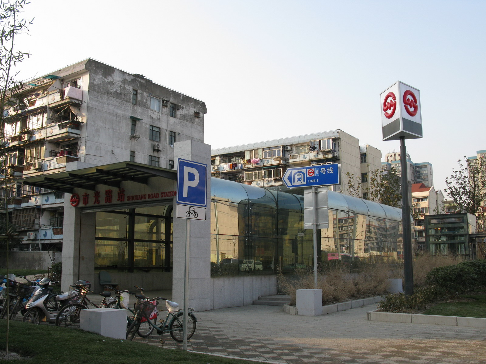 市光路站 3号口 Exit No. 3 of Shiguang Road Station